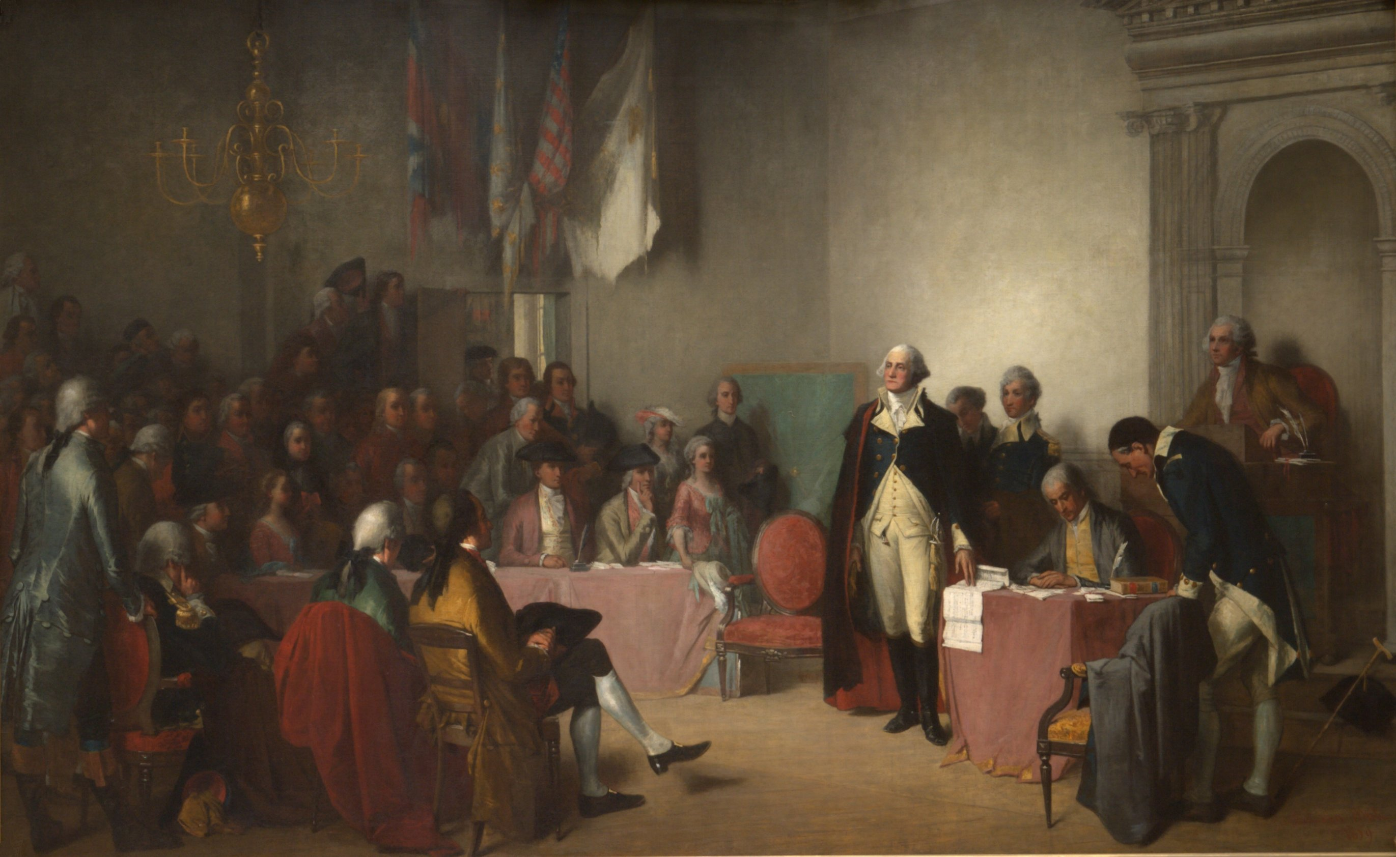 This painting depicts the scene in the Old Senate Chamber of the Maryland State House on December 23, 1783, when General George Washington resigned his commission as commander-in-chief of the Continental Army.